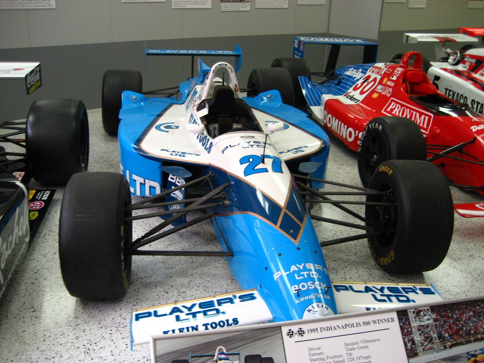 Jacques Villeneuve's winning car from the Indianapolis 500